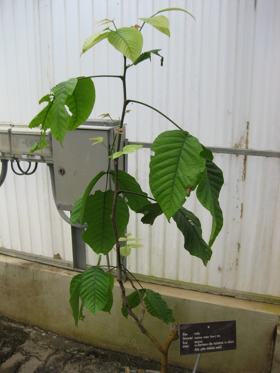 Sandoricum koetjape (Burm. f.) Merr. Photographed at the Queen Sirikit Botanic Garden (Chiang Mai Province, Thailand) in March